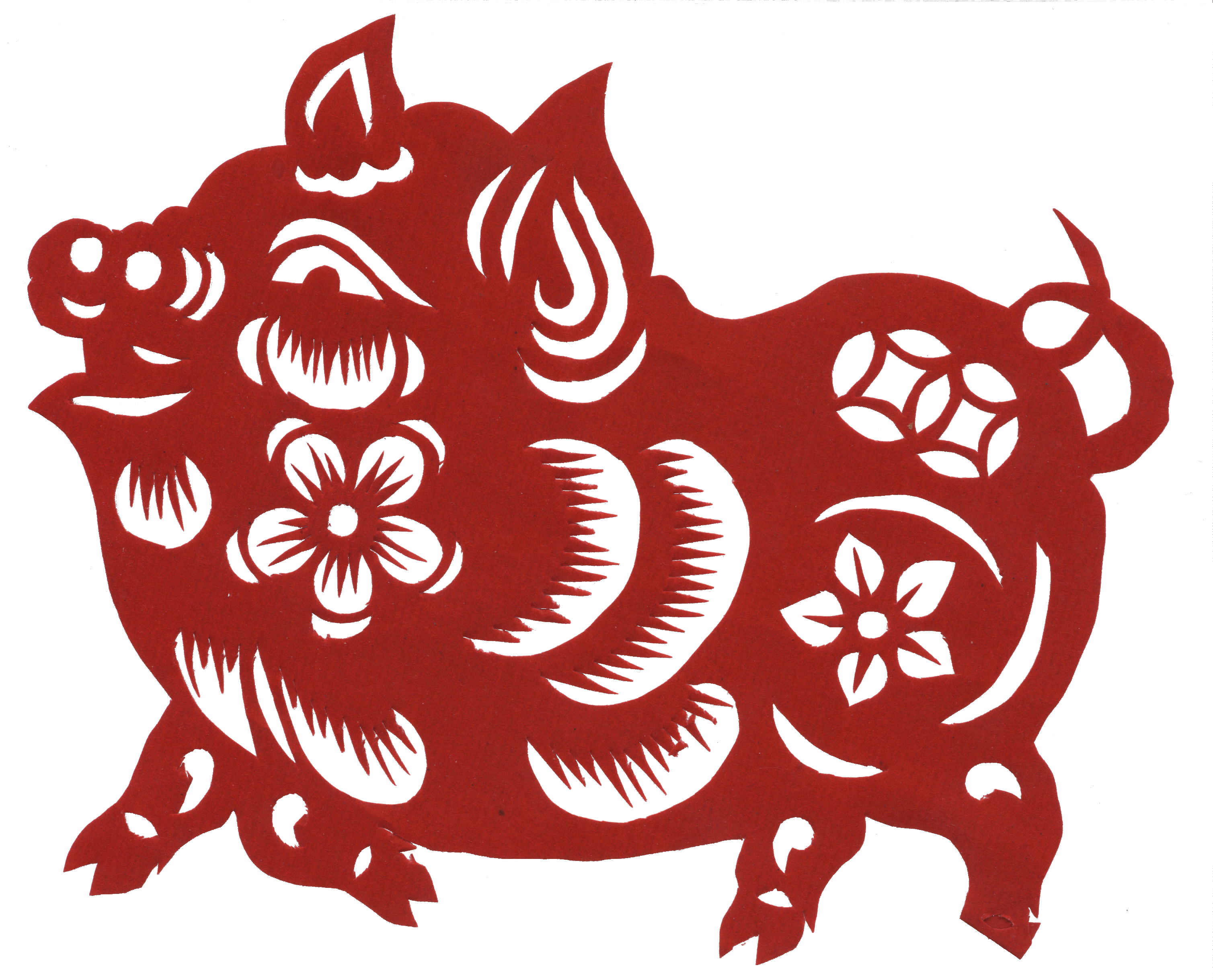 Paper cut of Pig for celebrating Pig Year New Year (2007, 2019)